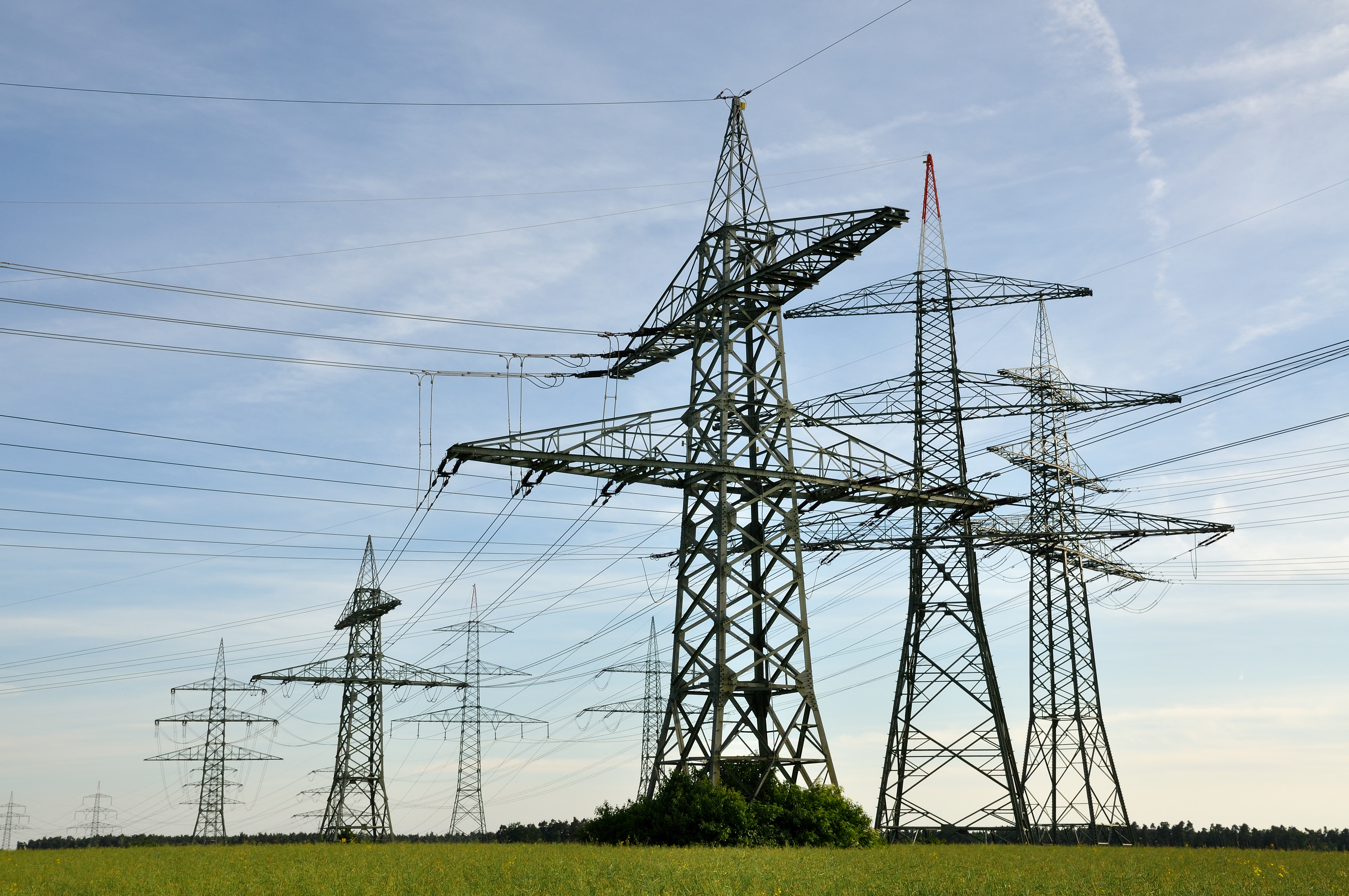 Power lines, electricity pylons at Raitersaich substation, Roßtal, Germany